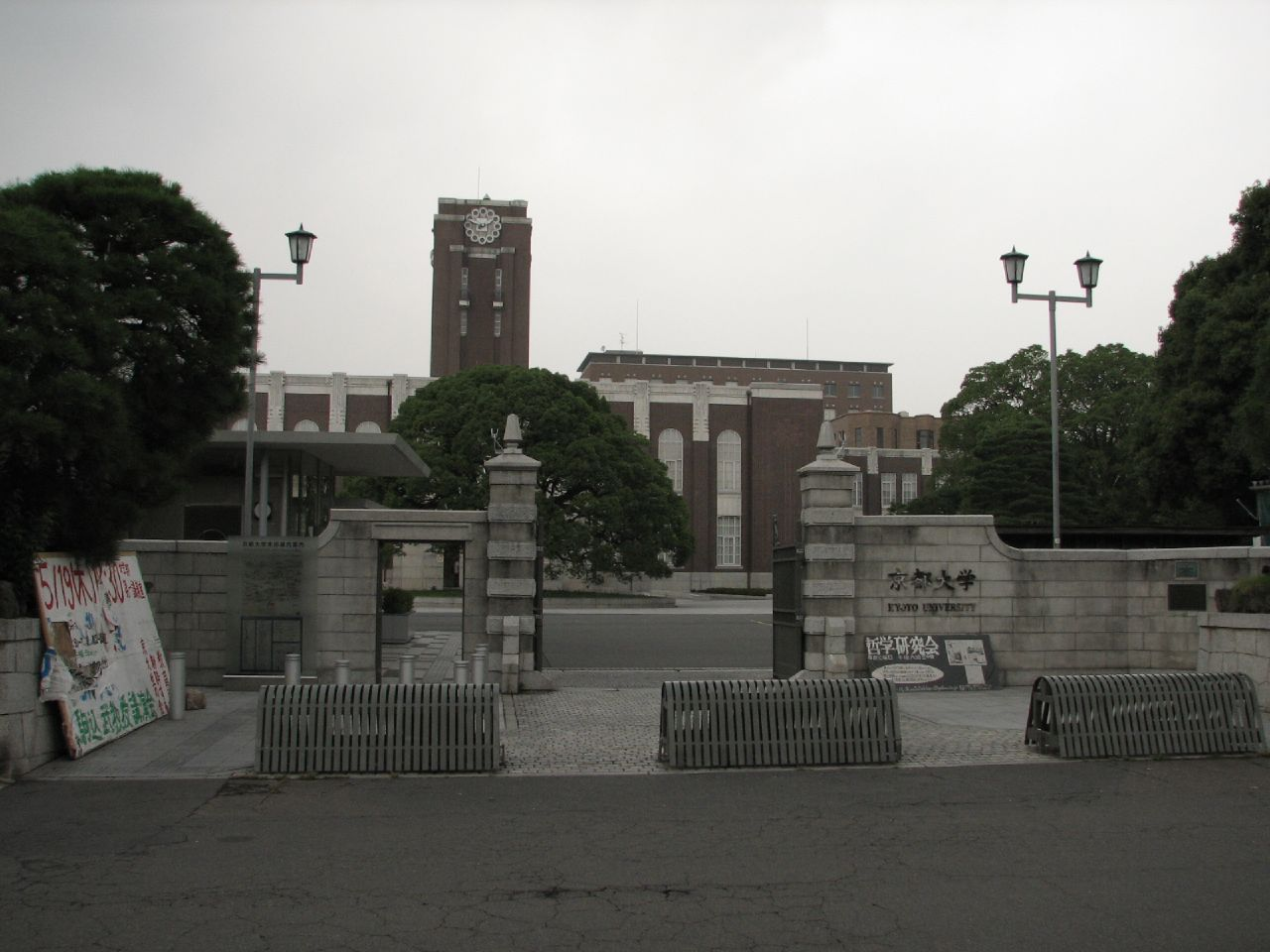 Kyoto University, Yoshida campus entrance, Kyoto, Japan